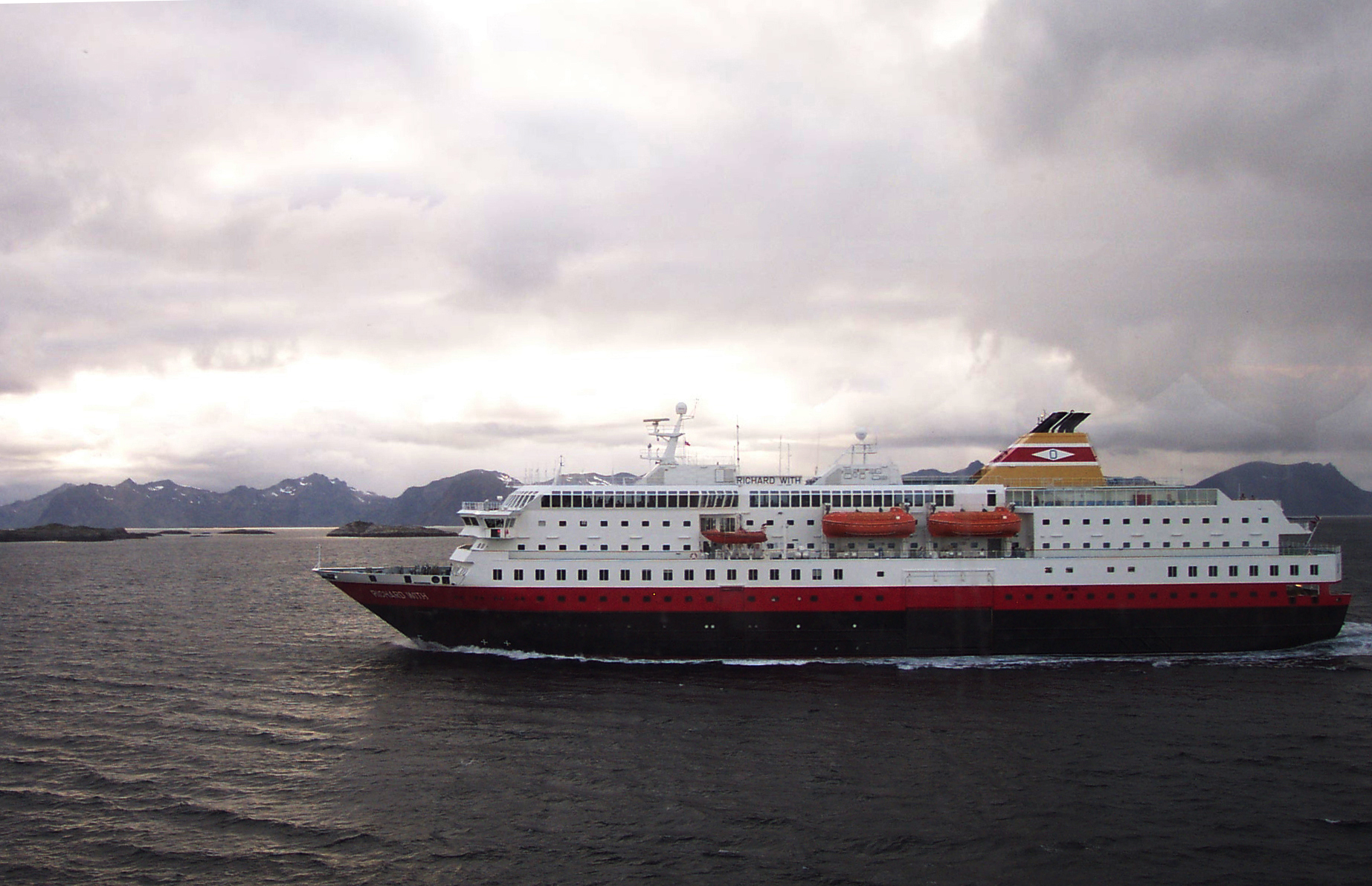 Description = MS Richard Express cotier dans les eaux norvegiennes Source =Photo taken by Remi Jouan Date =Mai 2004 Author =Remi Jouan